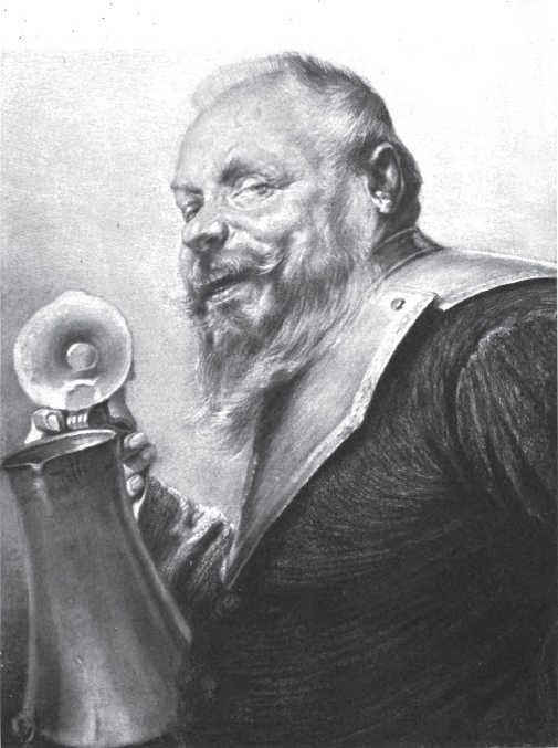 "Pan Zagłoba", Piotr Stachiewicz (Jan Onufry Zagłoba)